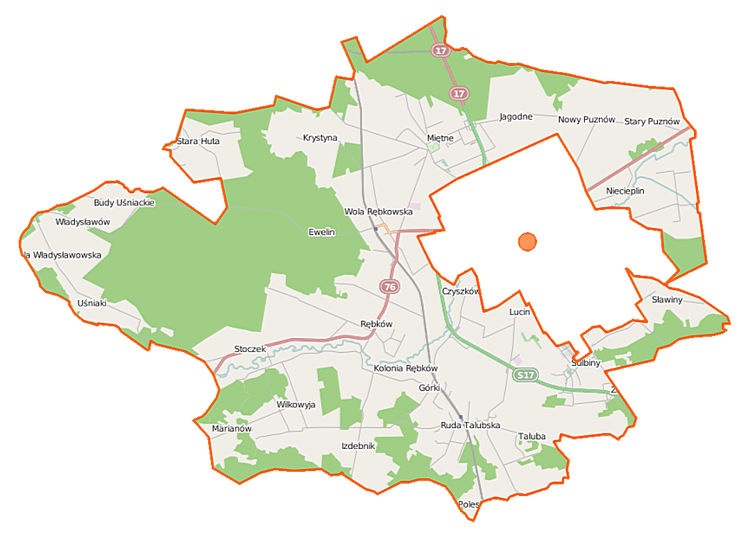 Map of Gmina Garwolin, Poland This map of Garwolin (gmina wiejska) was created from OpenStreetMap project data, collected by the community. This map may be incomplete, and may contain errors. Don't rely solely on it for navigation. Border coordinates51.957021.4062←↕→21.702851.8247